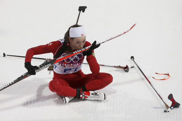 Selina Gasparin of Switzerland kisses her skis after arriving in the finish area during the women's 15km individual biathlon competition at the XXII Winter Olympics 2014 Sochi in Krasnaya Polyana, Russia, on Friday, February 14, 2014.